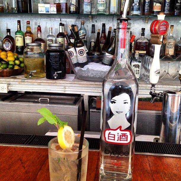 byejoe red with a cocktail